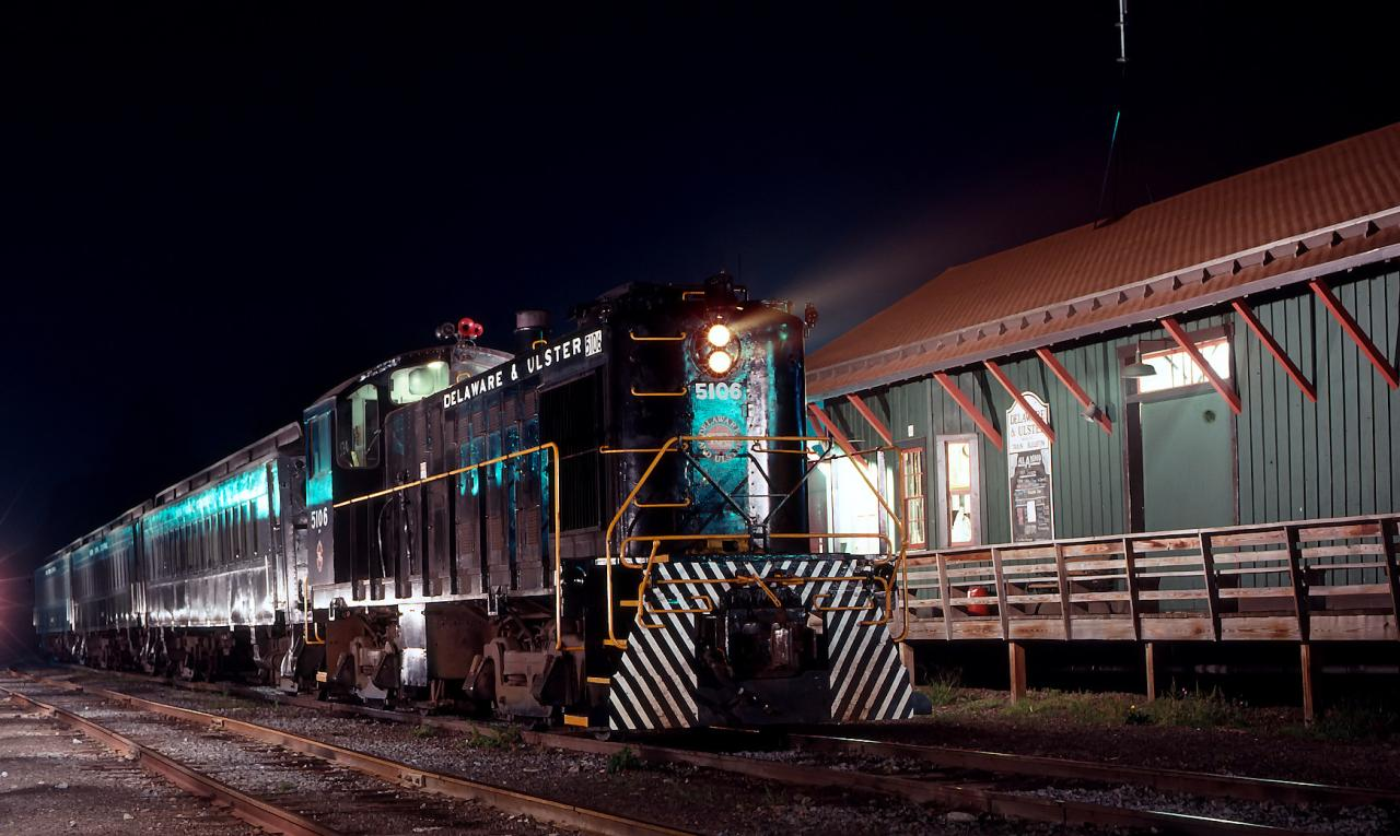 Delaware and Ulster RR excursion train, Arkville, NY. September 1989. Scan from 35mm slide.